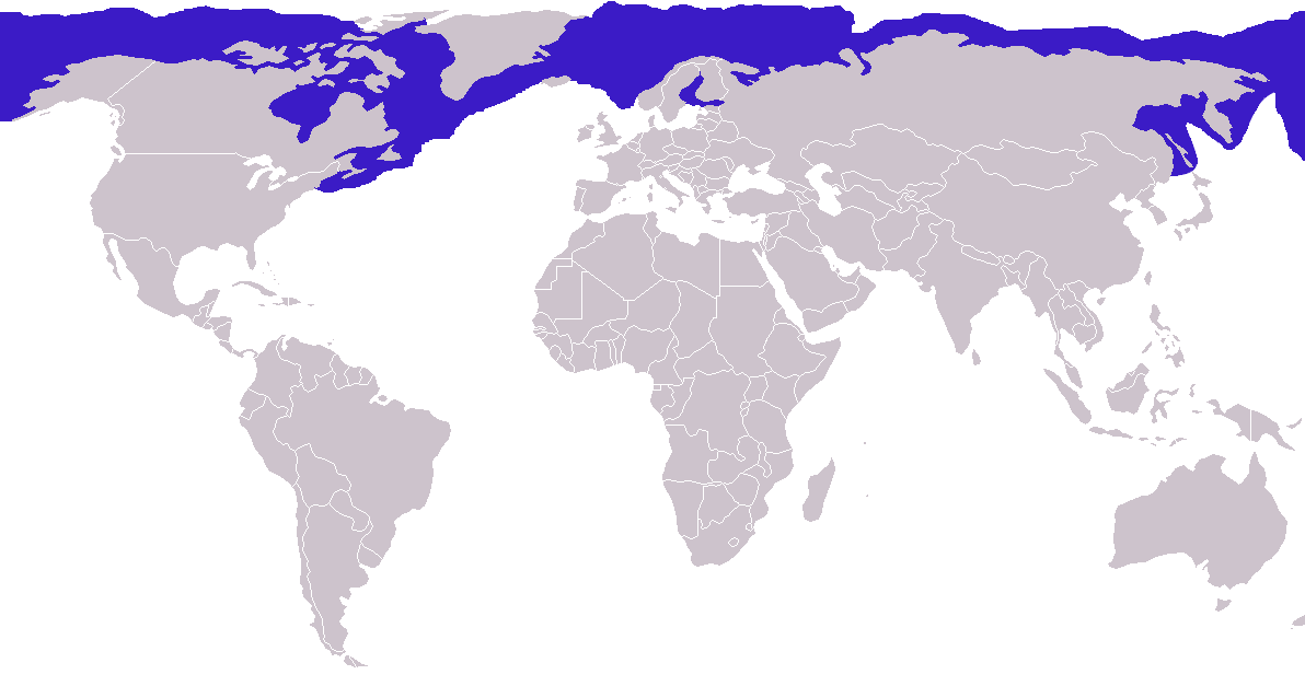 Distribution of the ringed seal